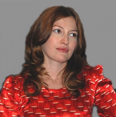 Kelly Macdonald at the New York Film Festival